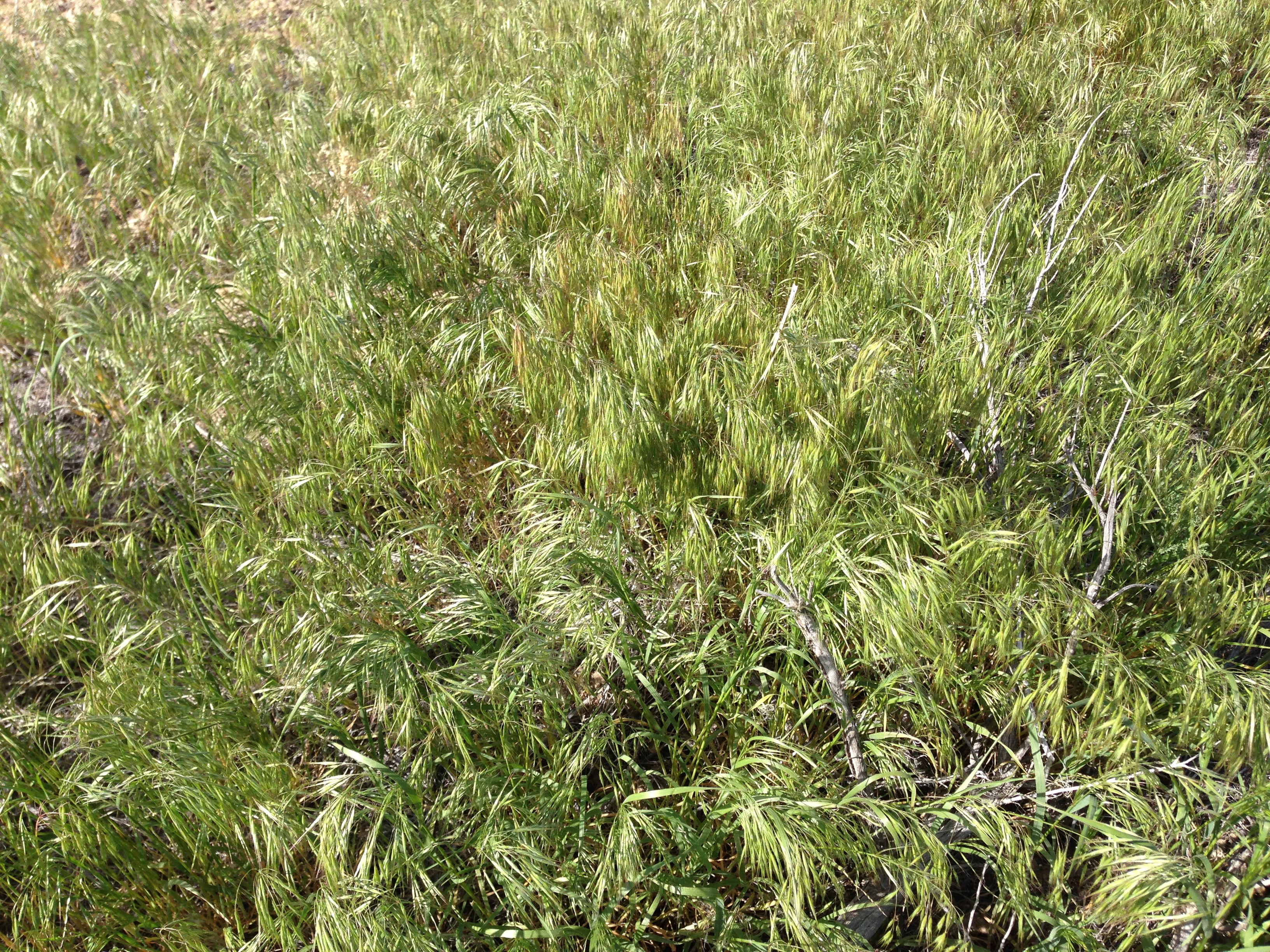 Cheat grass in Elko, Nevada. Wikidata has entry Q62555245 with data related to this item.